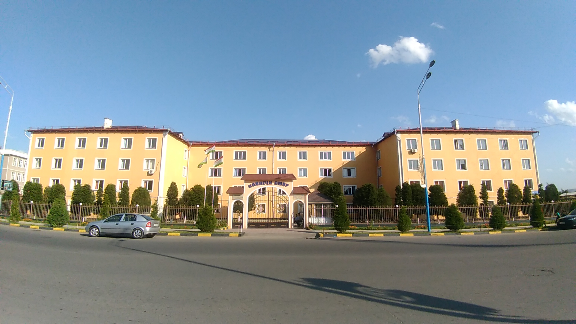 Stastic college of Vahdat town